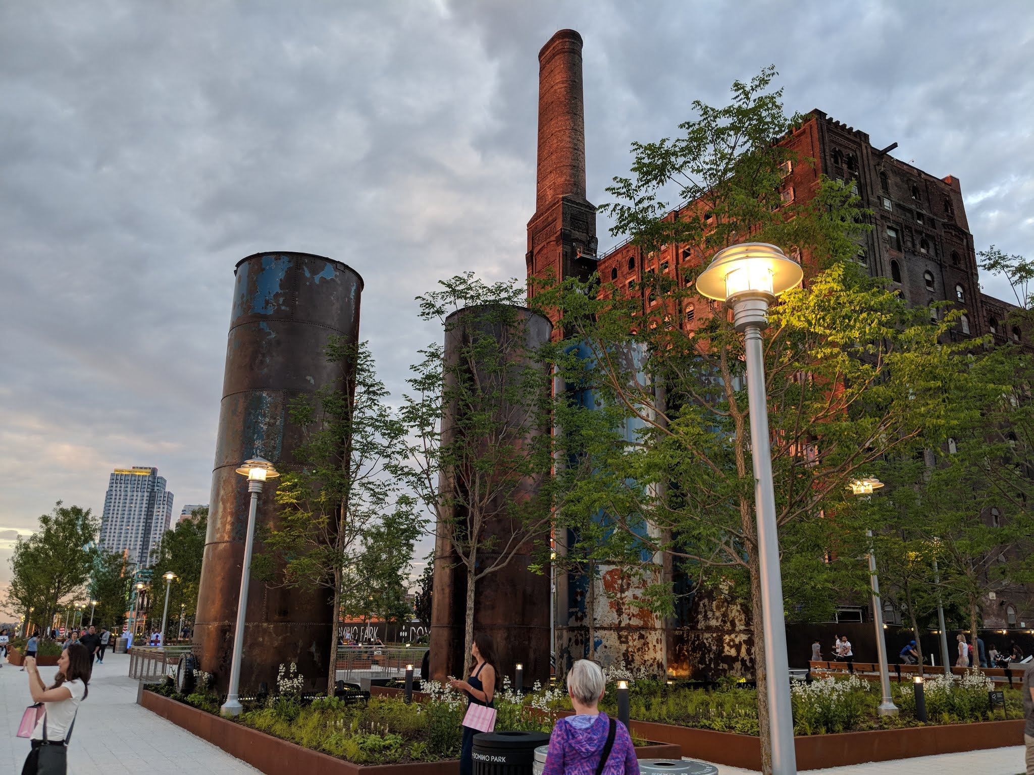 A view within Domino Park, a riverside urban park in Williamsburg, Brooklyn, New York City.